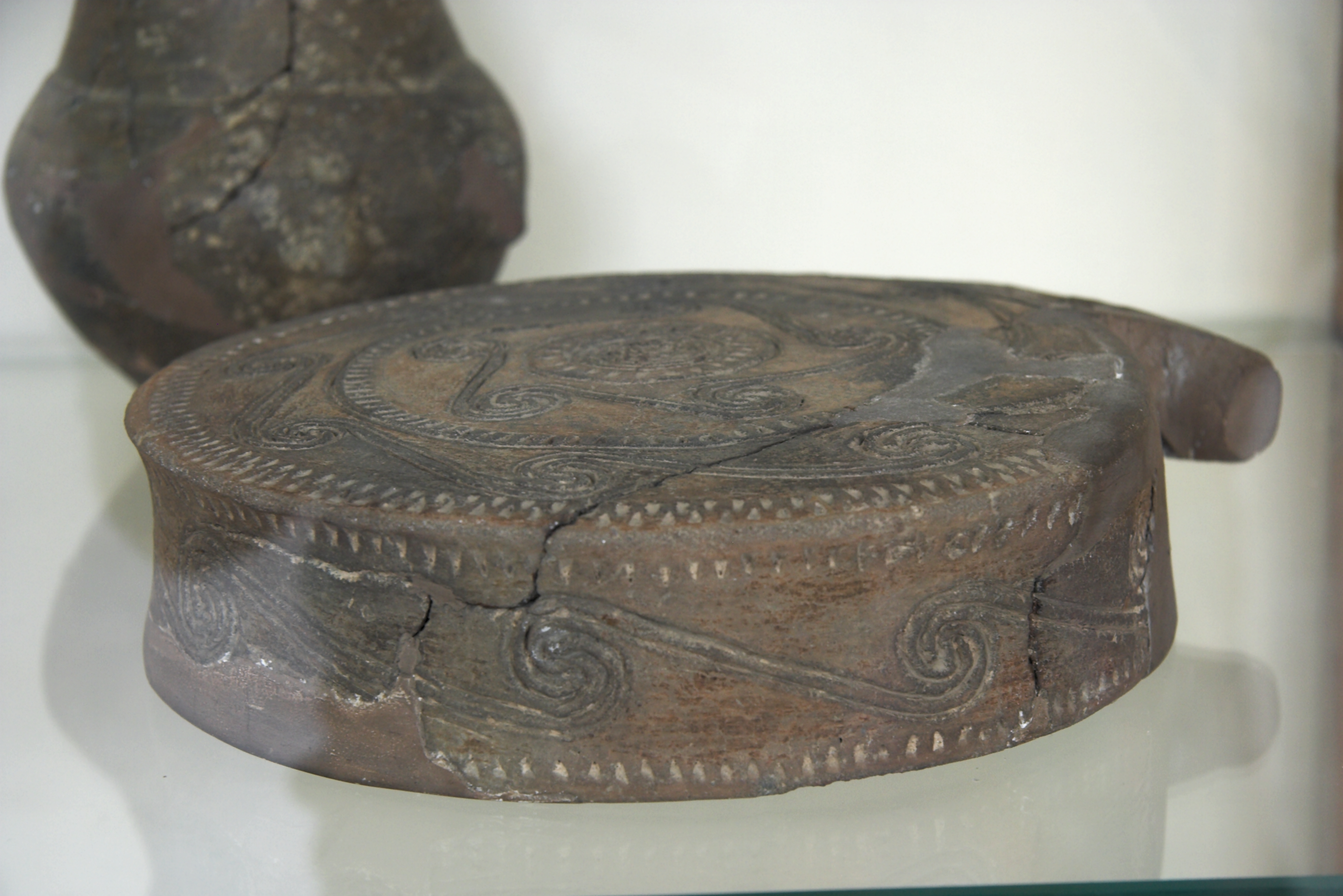 Clay Cycladic "frying-pan", "not the female" type. Early cycladic II period, 2800-2700 BC, Kampos Phase. Paros Archaeological Museum.